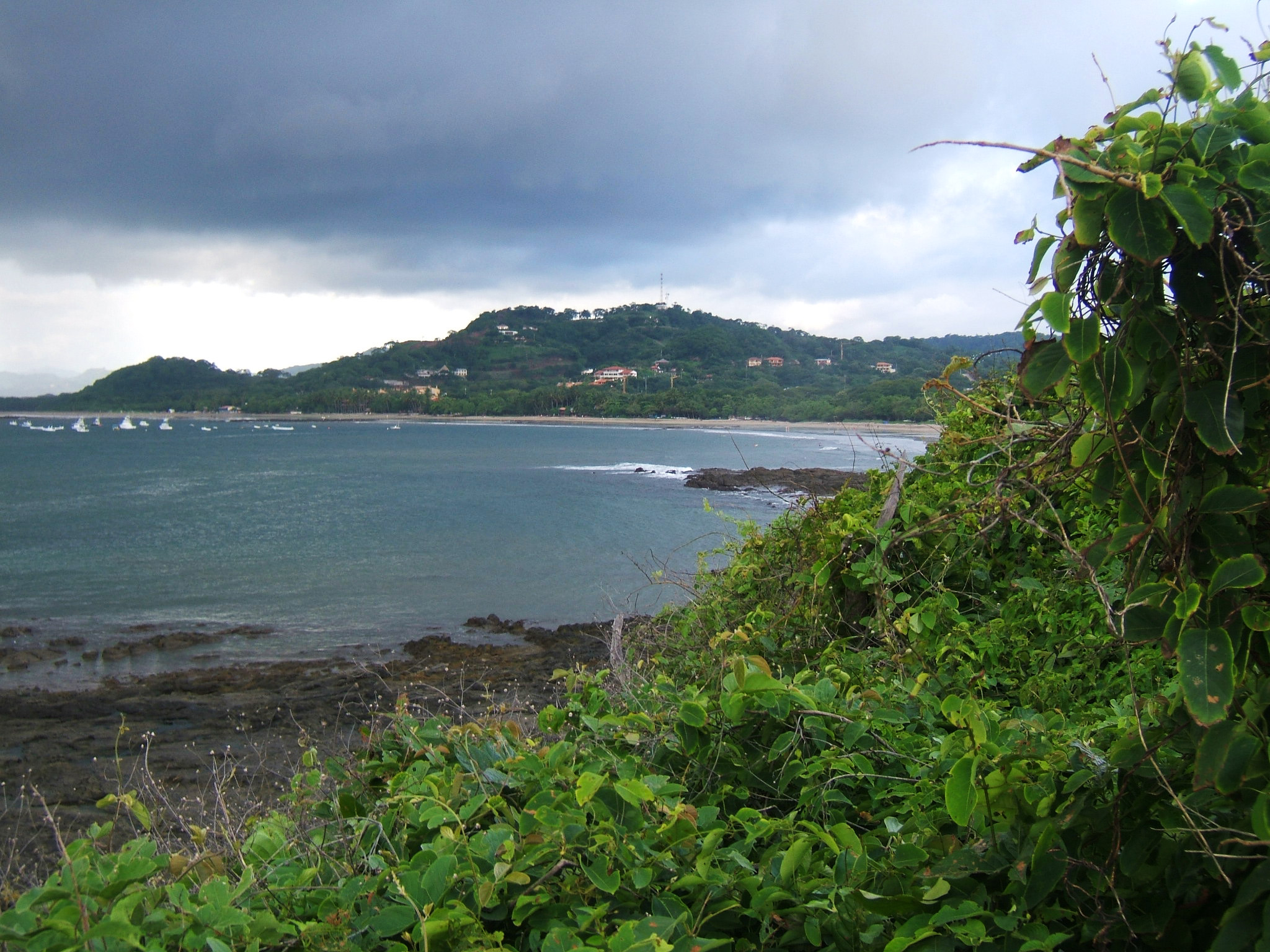 Bay of Tamarindo, Costa Rica